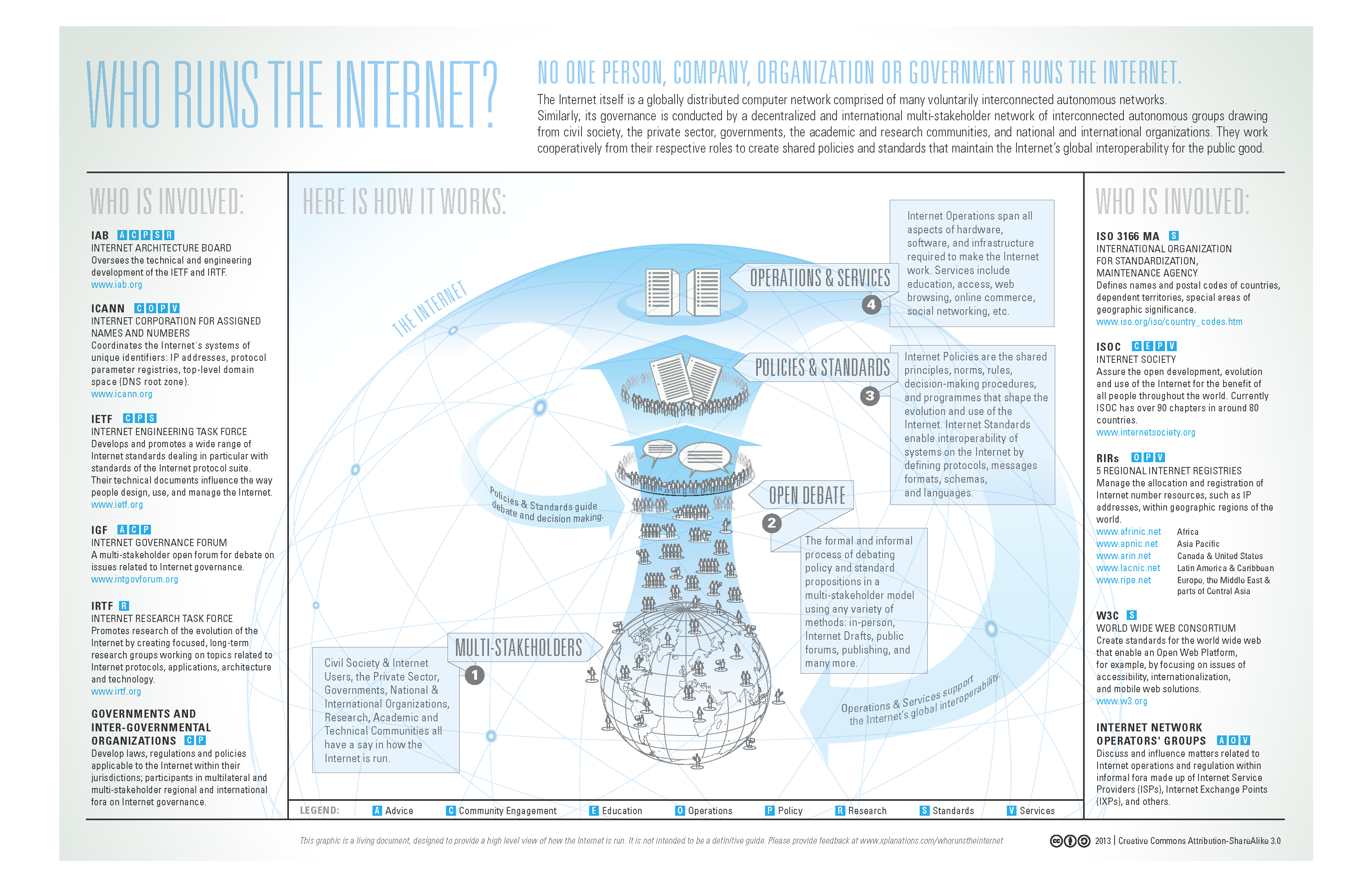 This graphic is a living document, designed to provide a high level view of how the internet is run. It is not intended to be a definitive guide. Please provide feedback at